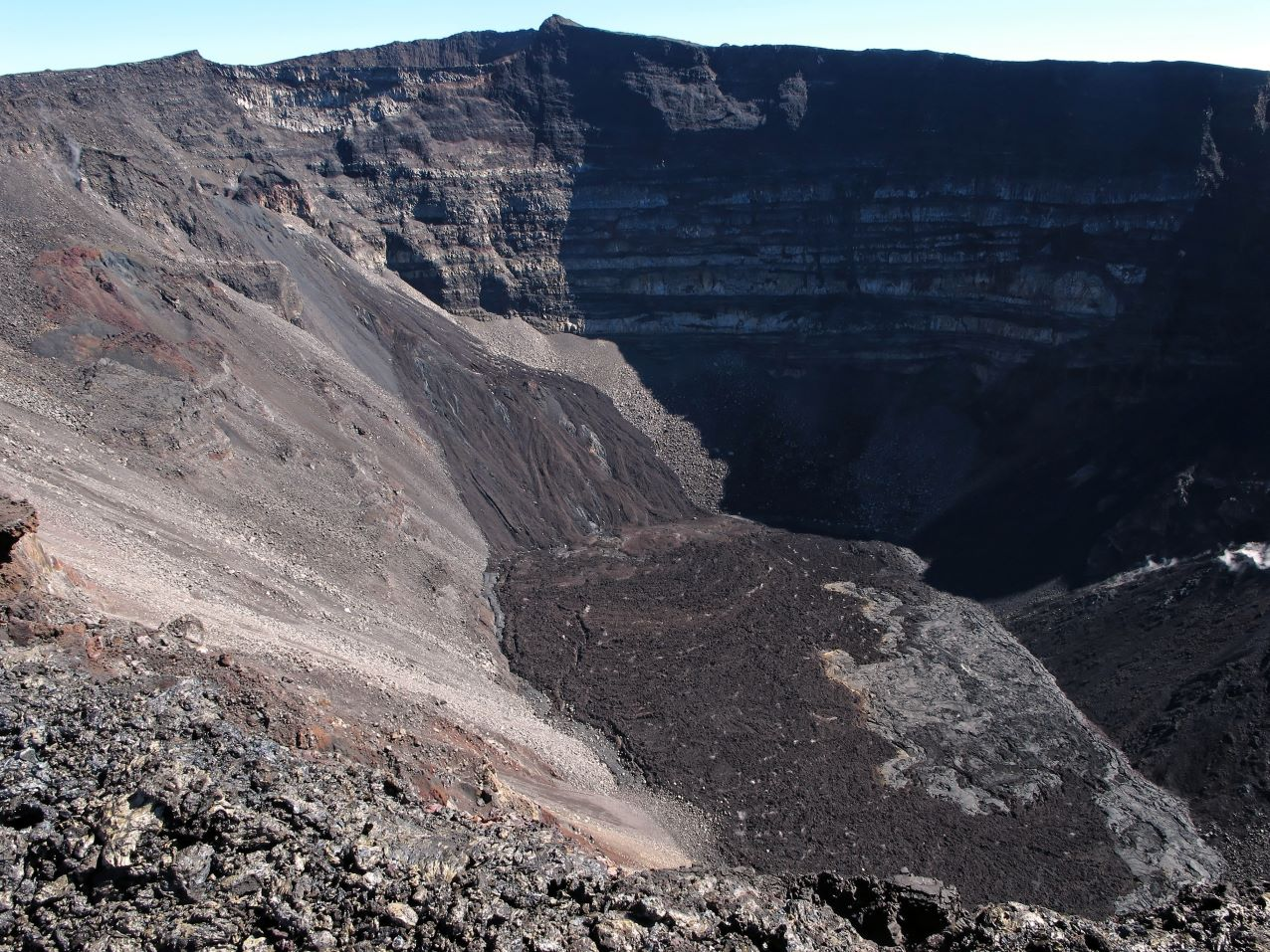 Piton de la Fournaise: Crater "Dolomieu"